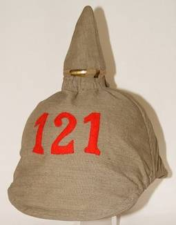 German M1895 Pickelhaube helmet with M1892 cover. (Garnisonmuseum Ludwigsburg)